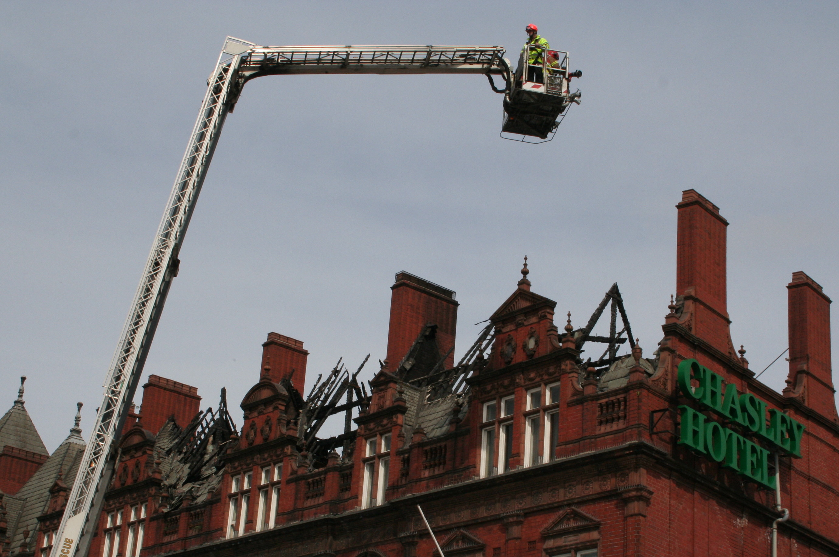 Fire at the King's Head Hotel in Darlington, England